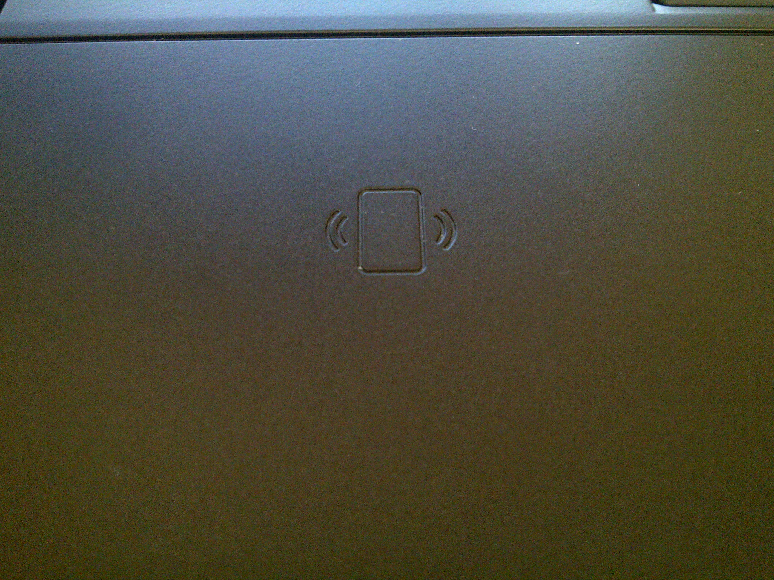 RFID reader location on a Dell e6410. Located under palm rest.